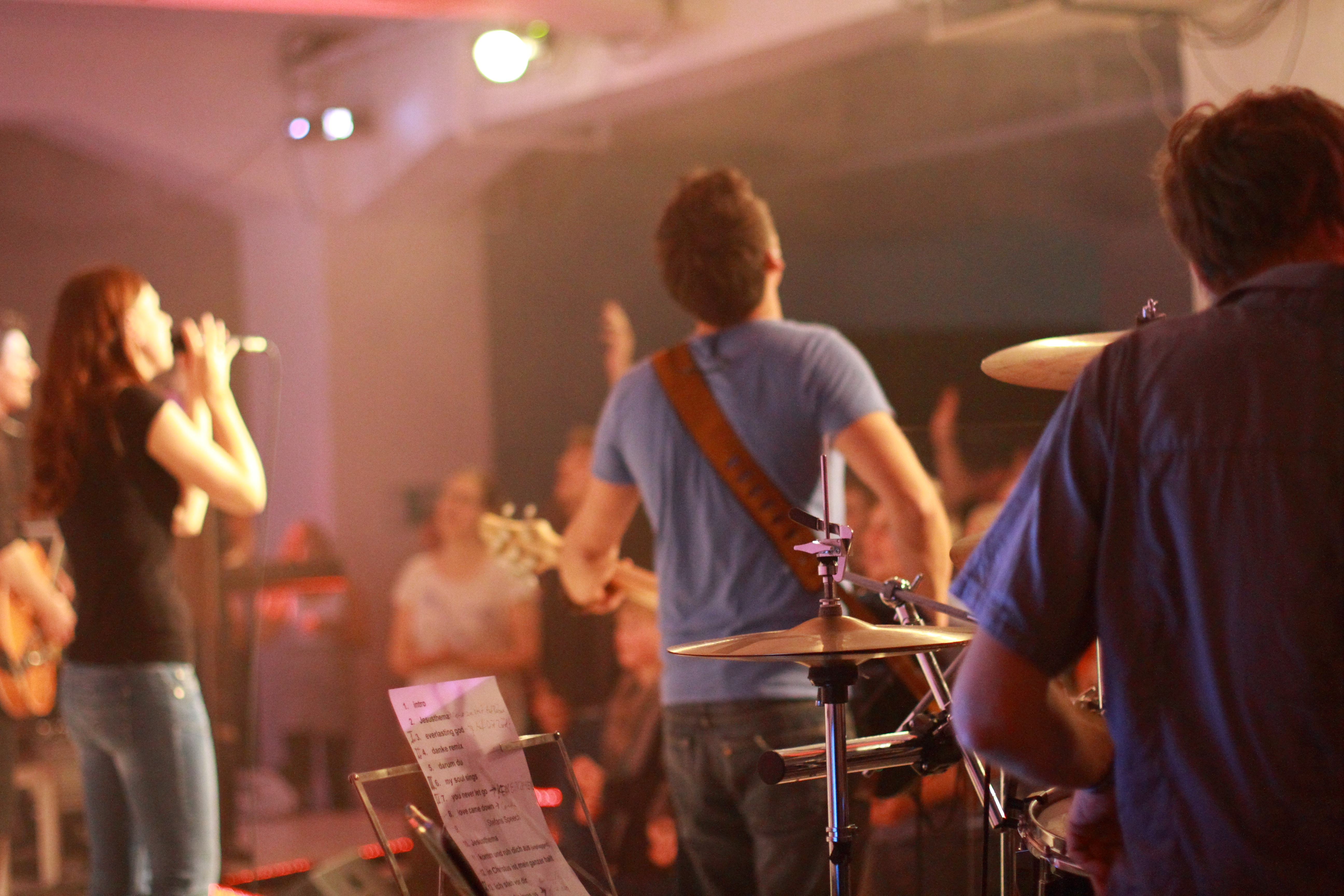 Photo from worship at the ICF Berlin.